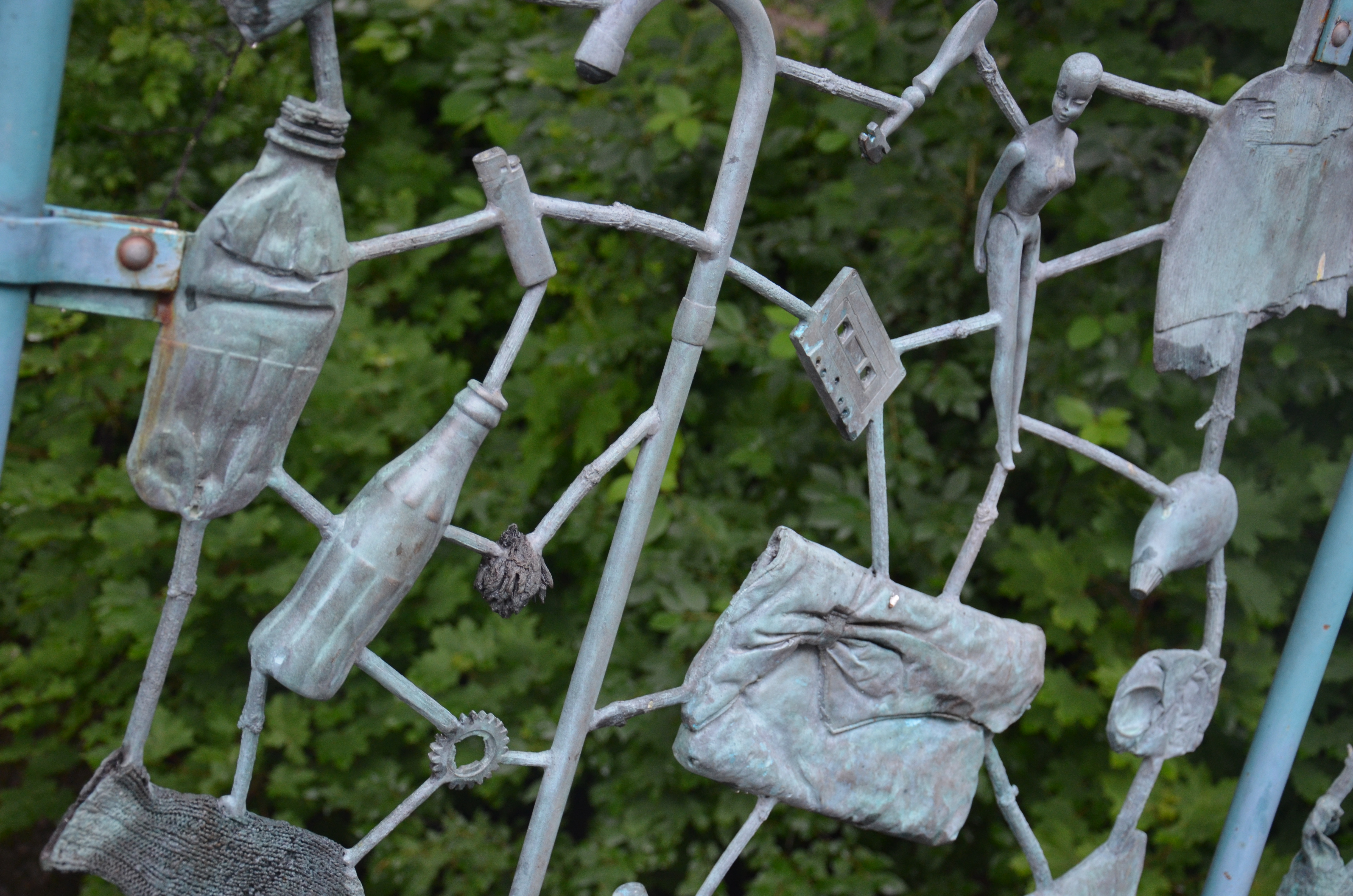 Ann Sidén´s Bridge, bronze, Lilla Å-promenaden, Örebro (detail)